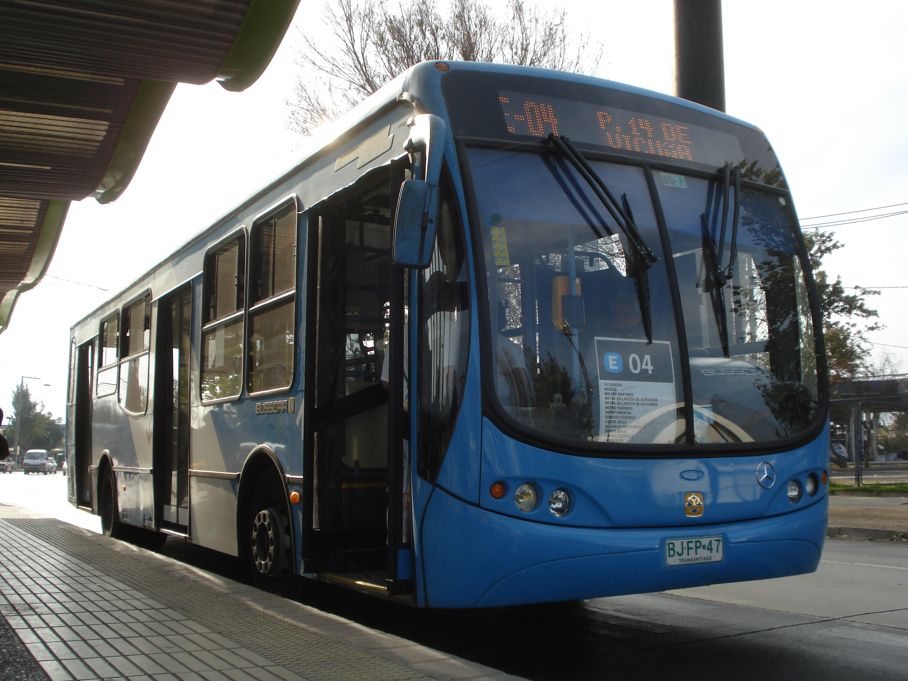 Busscar Urbanuss Pluss bus (reg. BJ-FP-47) with Mercedes-Benz chassis in Santiago de Chile, Chile. Transantiago.